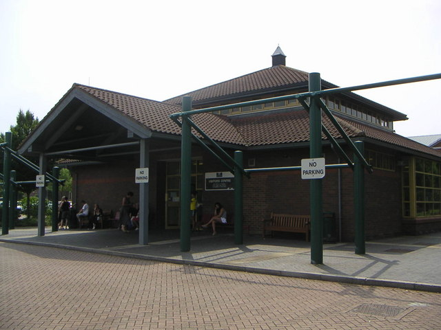 HMP Woodhill Visitors Centre. The visitors centre at the front of Woodhill Prison. Not sure if i was allowed to photo this or not!!